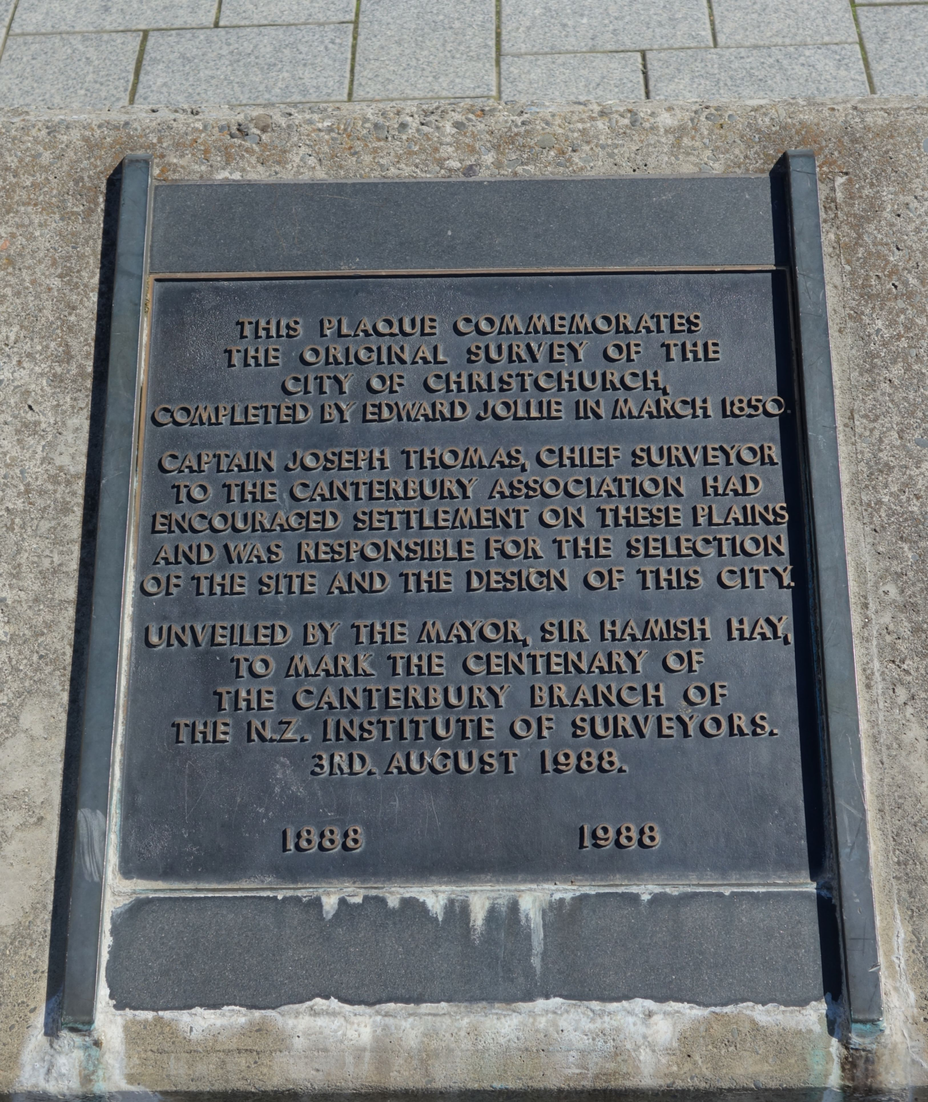 Christchurch in September 2015